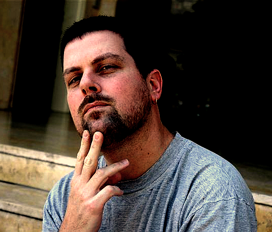 Official profile pic for Sagol 59